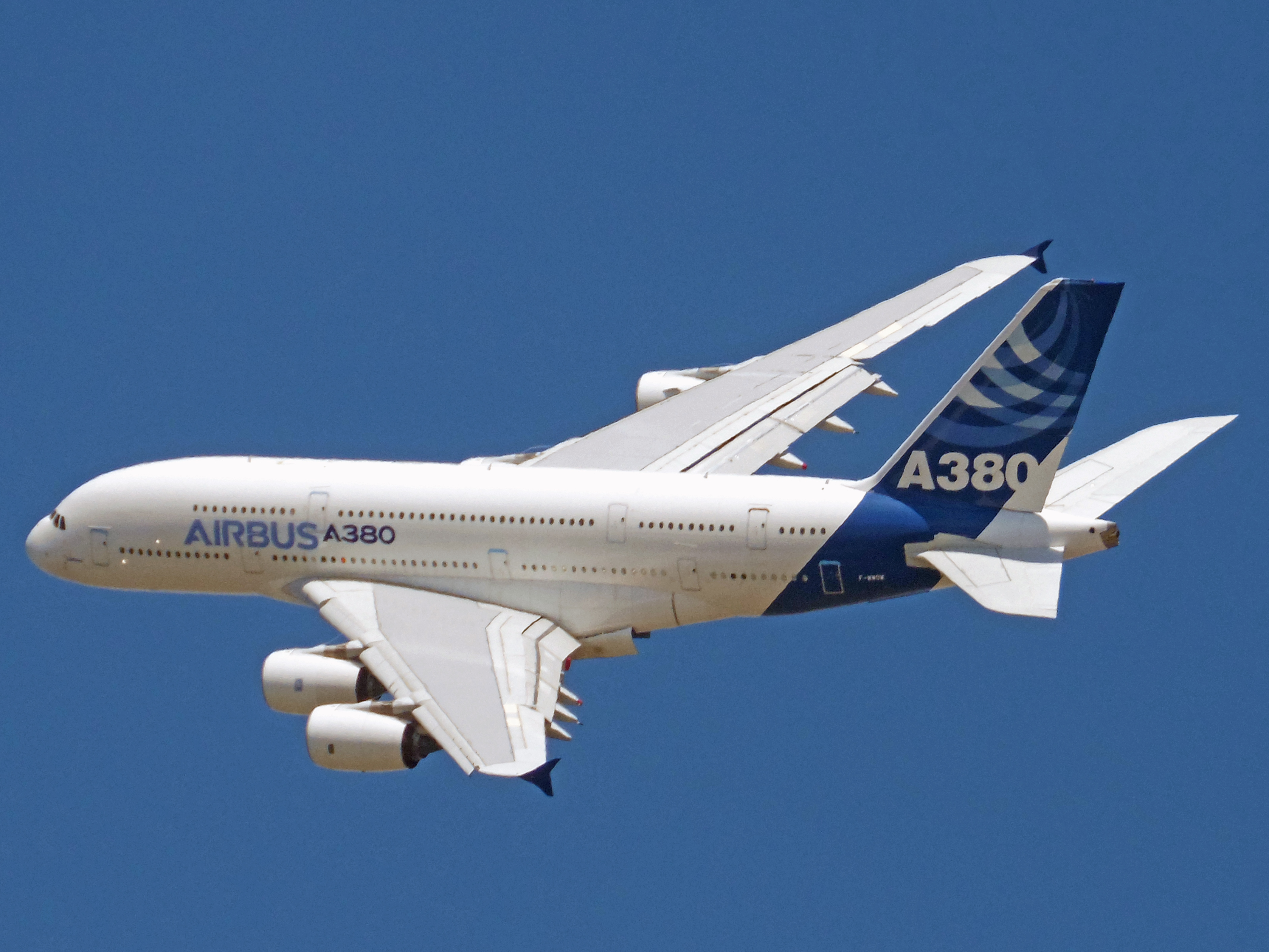 Airbus A380's demo flight at FIDAE 2014